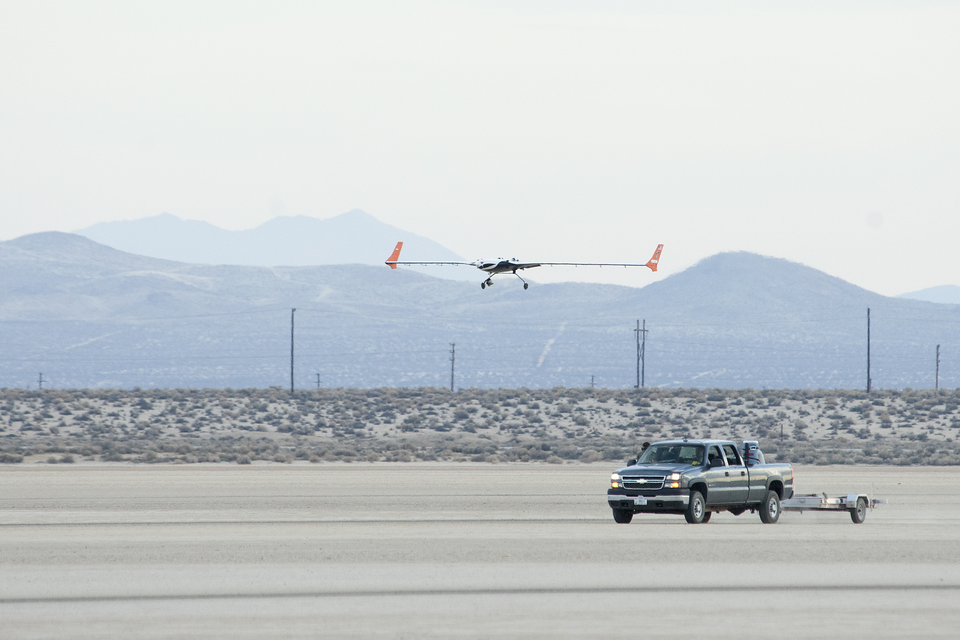 The X-56A Multi-Utility Technology Testbed comes in on final approach to landing July 26 at Edwards AFB, Calif. Powered by twin JetCat P400 turbojets, the X-56A has a 28-foot wing span and weighs 480 pounds. (NASA photo by Kenneth E. Ulbrich)